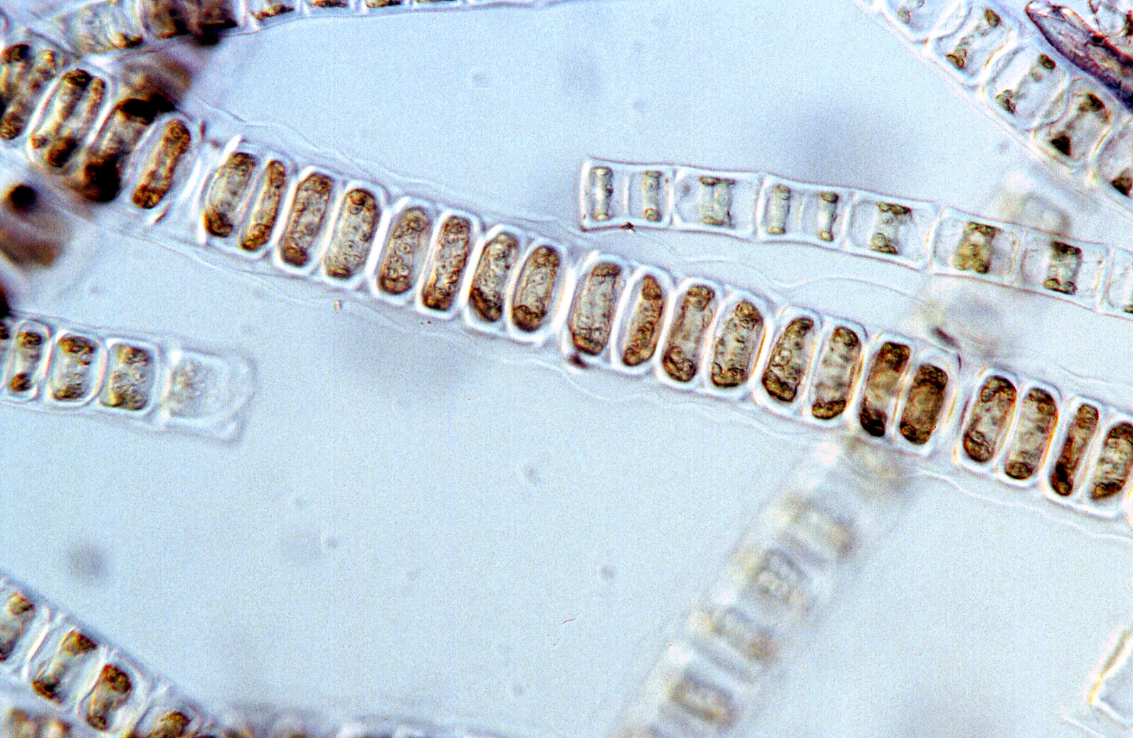 Ulothrix sp.